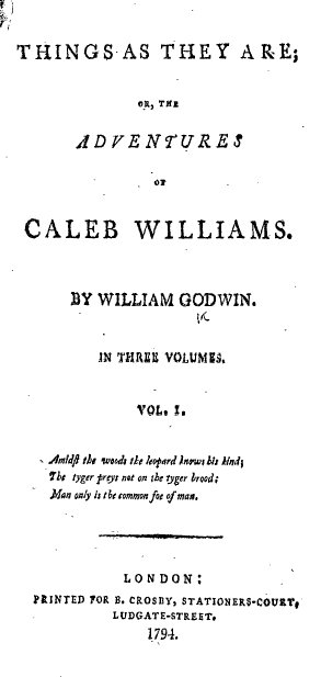 Title page from William Godwin's novel Caleb Williams